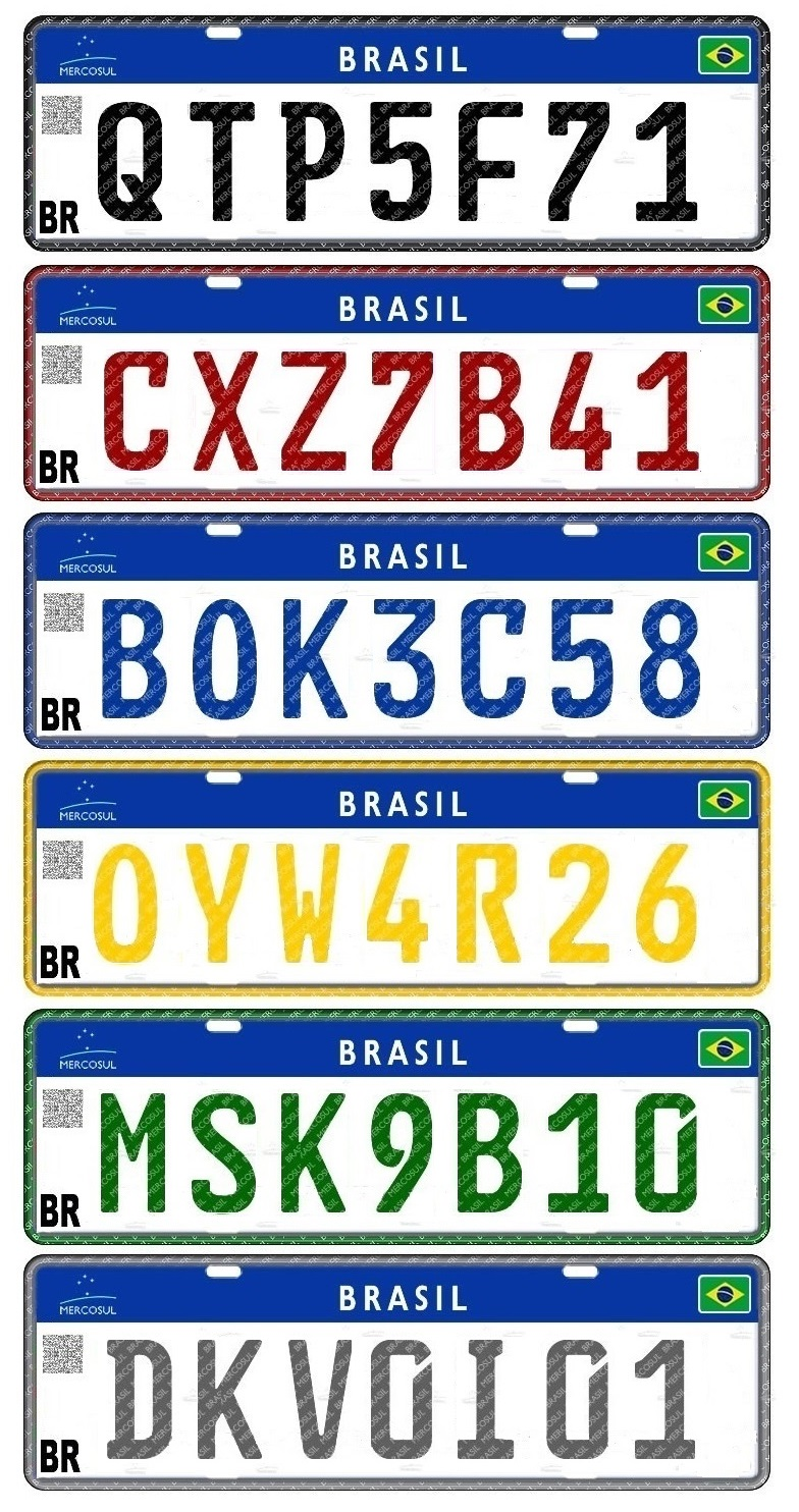 License plate modalities in the Mercosul standard, as implemented in Brazil from 2018. Note that the background is always white: the colors of the characters indicate the vehicle category.